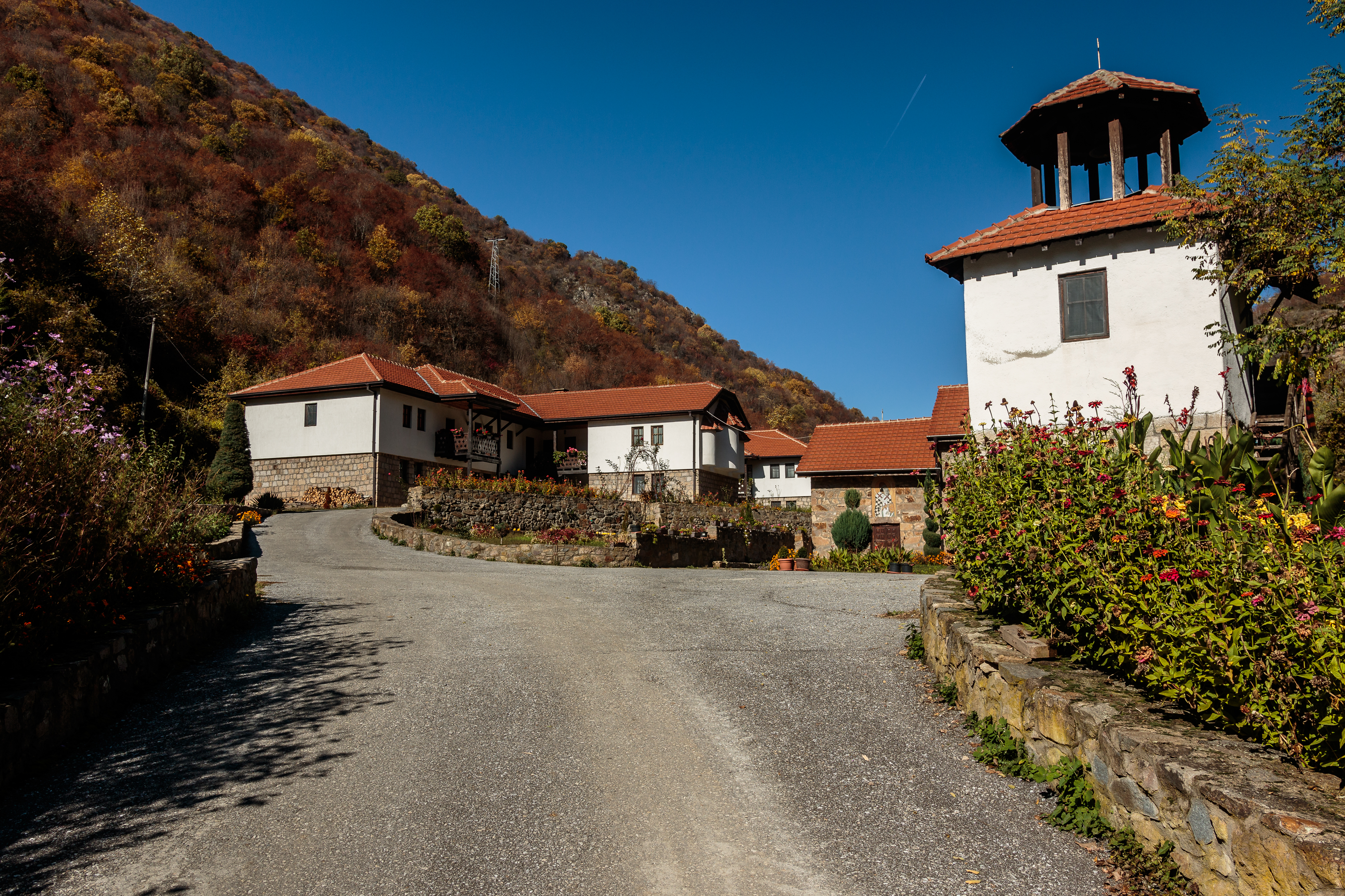 View of the Zelengrad monastery, Zletovo-Probištip Region, Macedonia